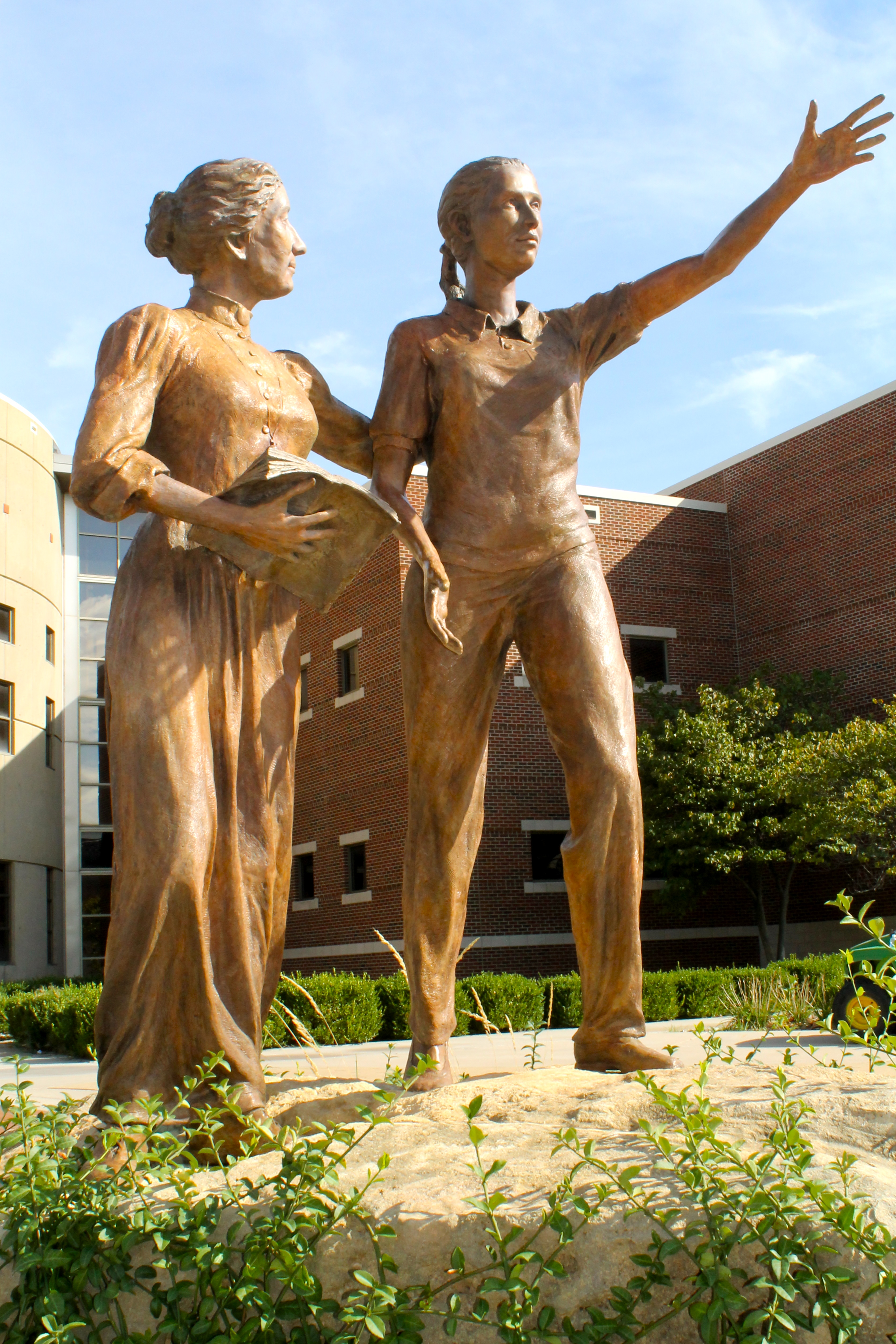 Newman University, Wichita